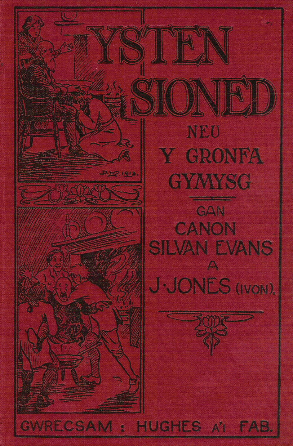 Illustrated cover of Ysten Sioned (3rd edition, Hughes and Son, Wrexham, 1894), a miscellaneous collection of Welsh folktales, ghost stories, sayings, humour etc.